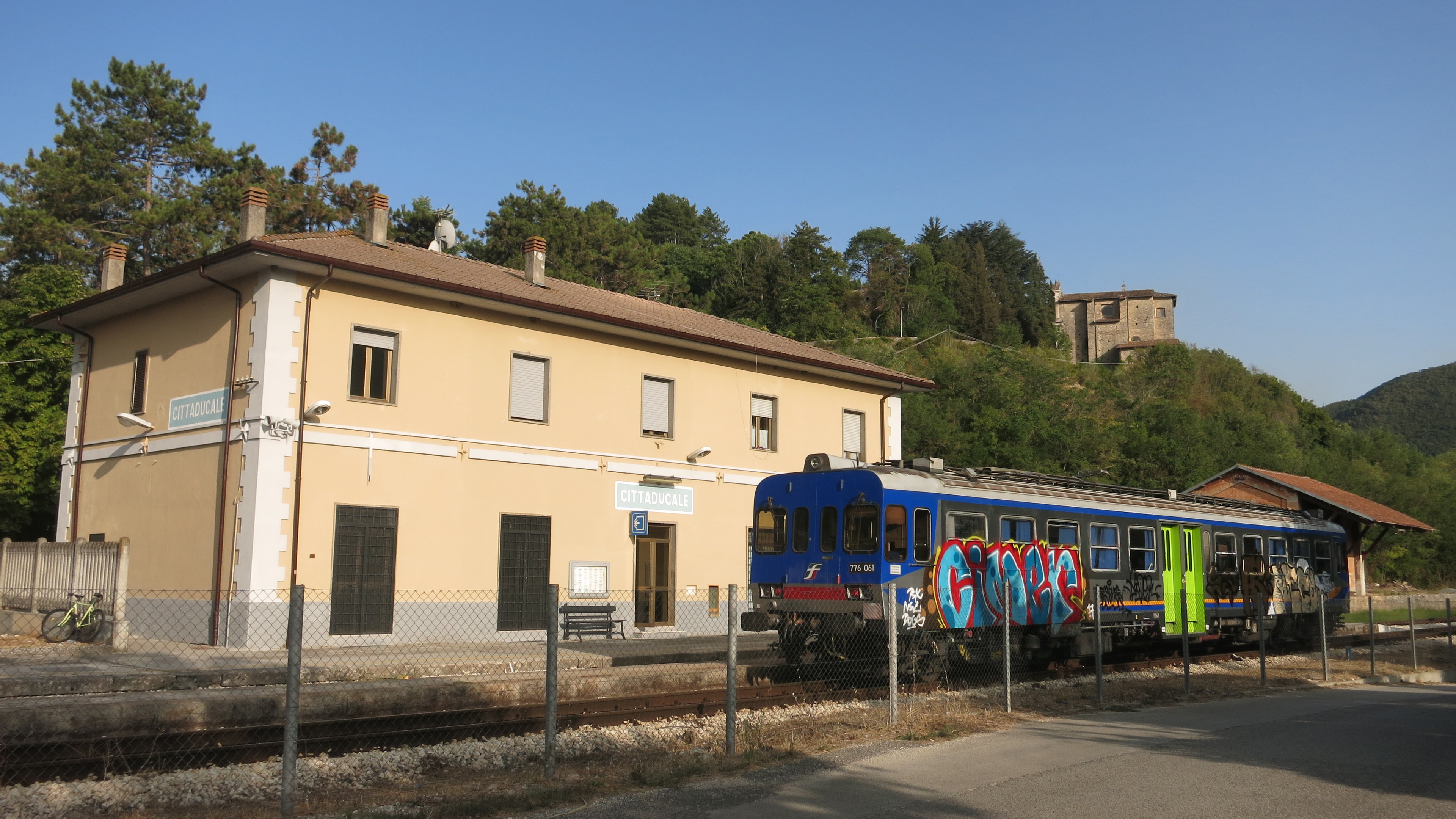 DMU class ALn 776 number 061 owned by Umbria Mobilità stopping in the Cittaducale train station (province of Rieti, Lazio, Italy), on the Terni-Rieti-L'Aquila-Sulmona line.